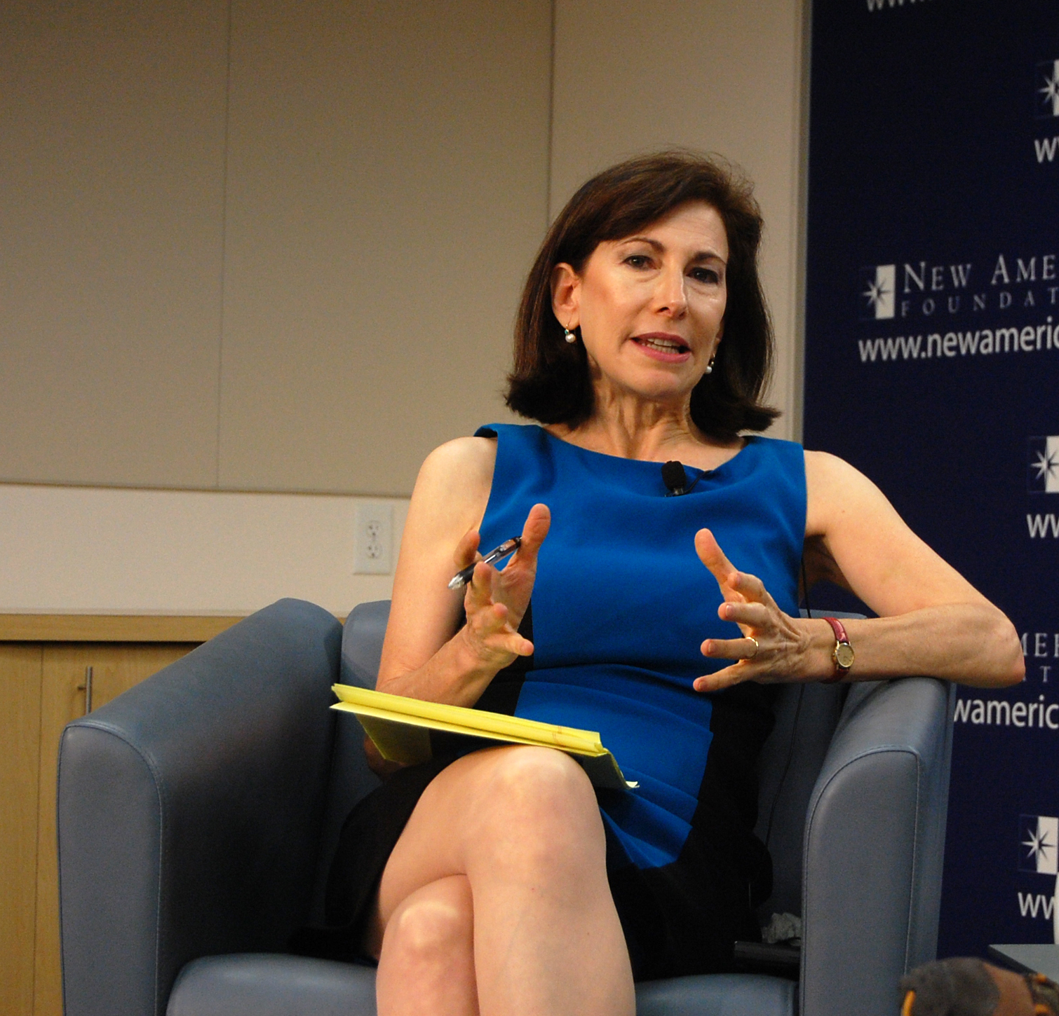 Emily Yoffe, American journalist, and "Dear Prudence" advice columnist for Slate, moderating the New America Foundation event "Is Our Techo-Human Marriage in Need of Counseling?" in Washington D.C.